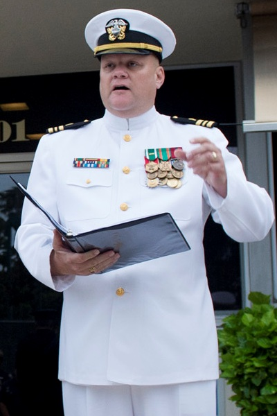 Chaplain Lt. Cmdr. Wesley Modder offers an invocation during a Sept. 11 commemoration ceremony at the Coronado Fire Department. The ceremony observed the 11th anniversary of the terrorist attacks and honored those who lost their lives and loved ones in 2001. (U.S. Navy photo by Mass Communication Specialist 2nd Class Benjamin Crossley)